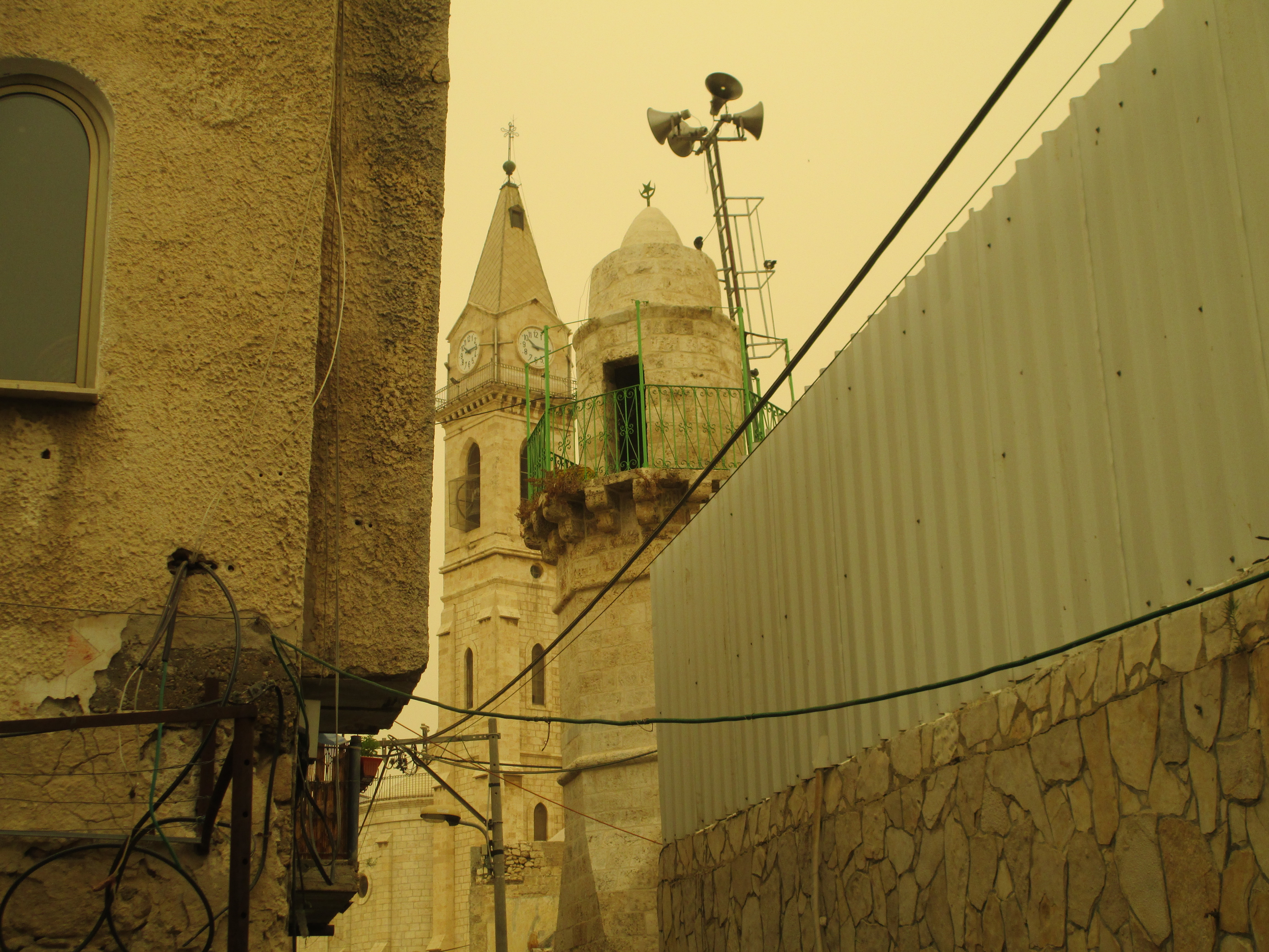 A church and a mosque in Ramla